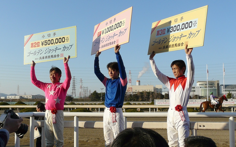 19th-Golden-Jockey-Cup